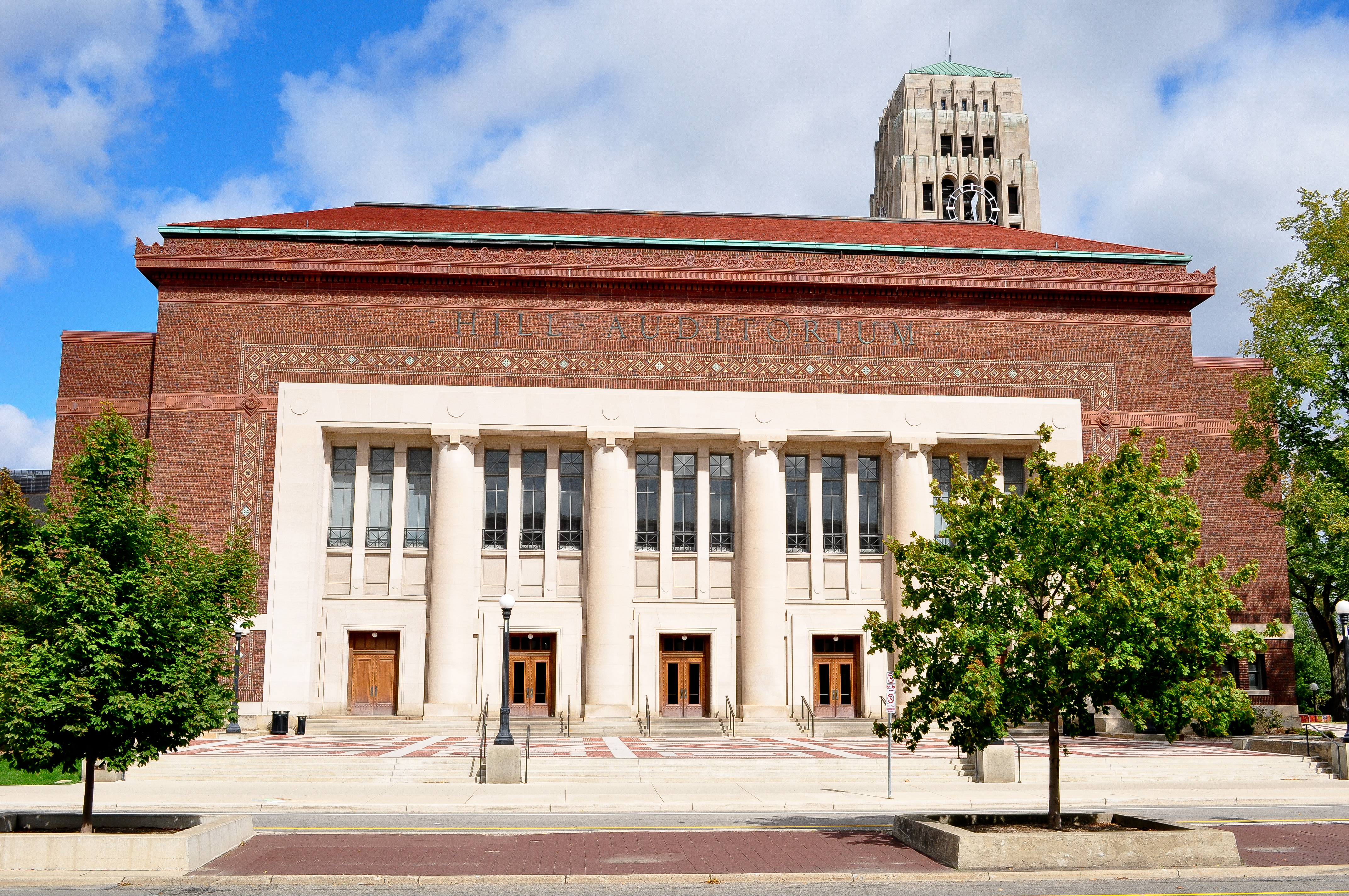 Photo of Hill Auditorium